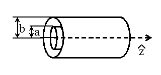 This is a figure of a cylindrical coaxial cable